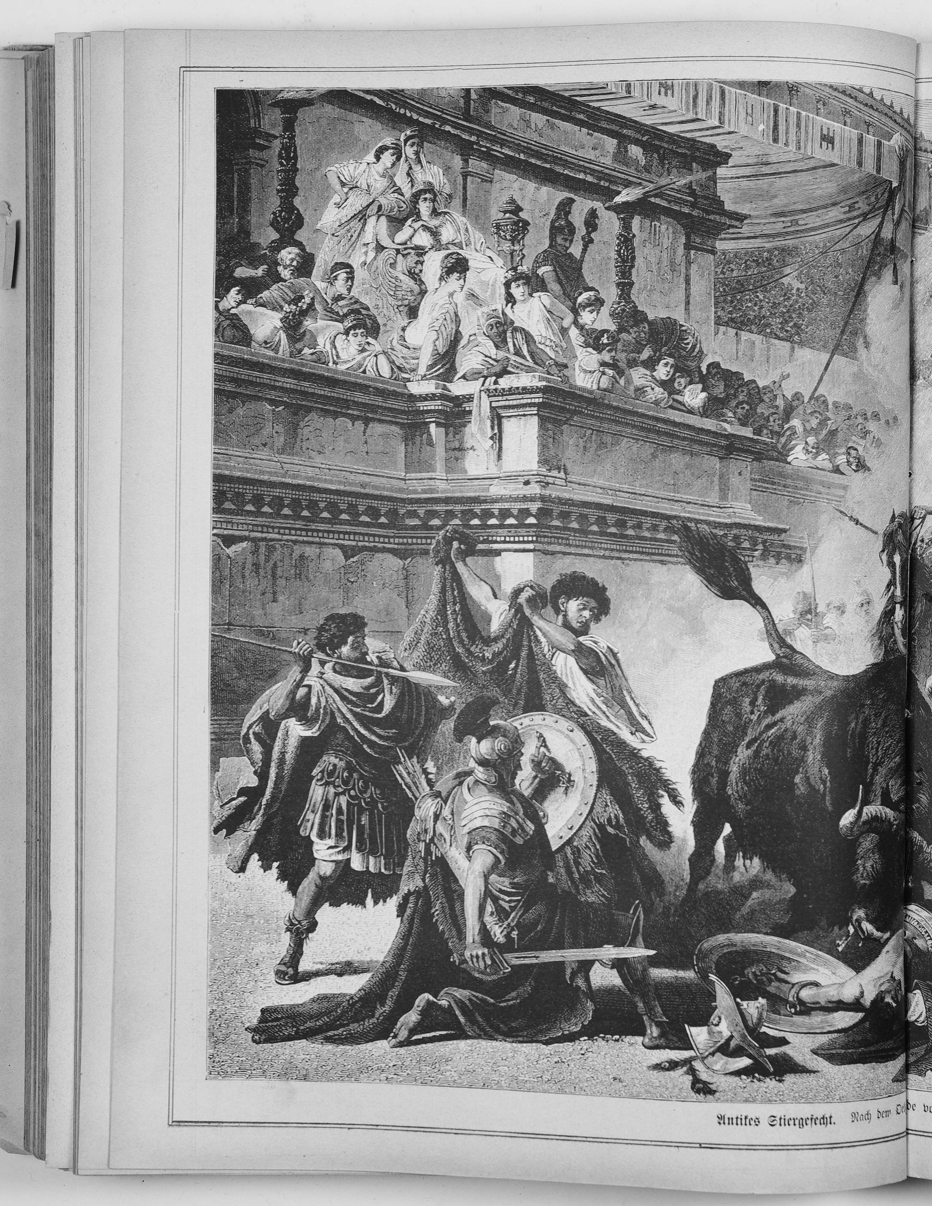 Page 500 from journal Die Gartenlaube for 1878. Extracted image (if any): File:Die Gartenlaube (1878) b 500.jpg - hi res, ~2.5 MB.